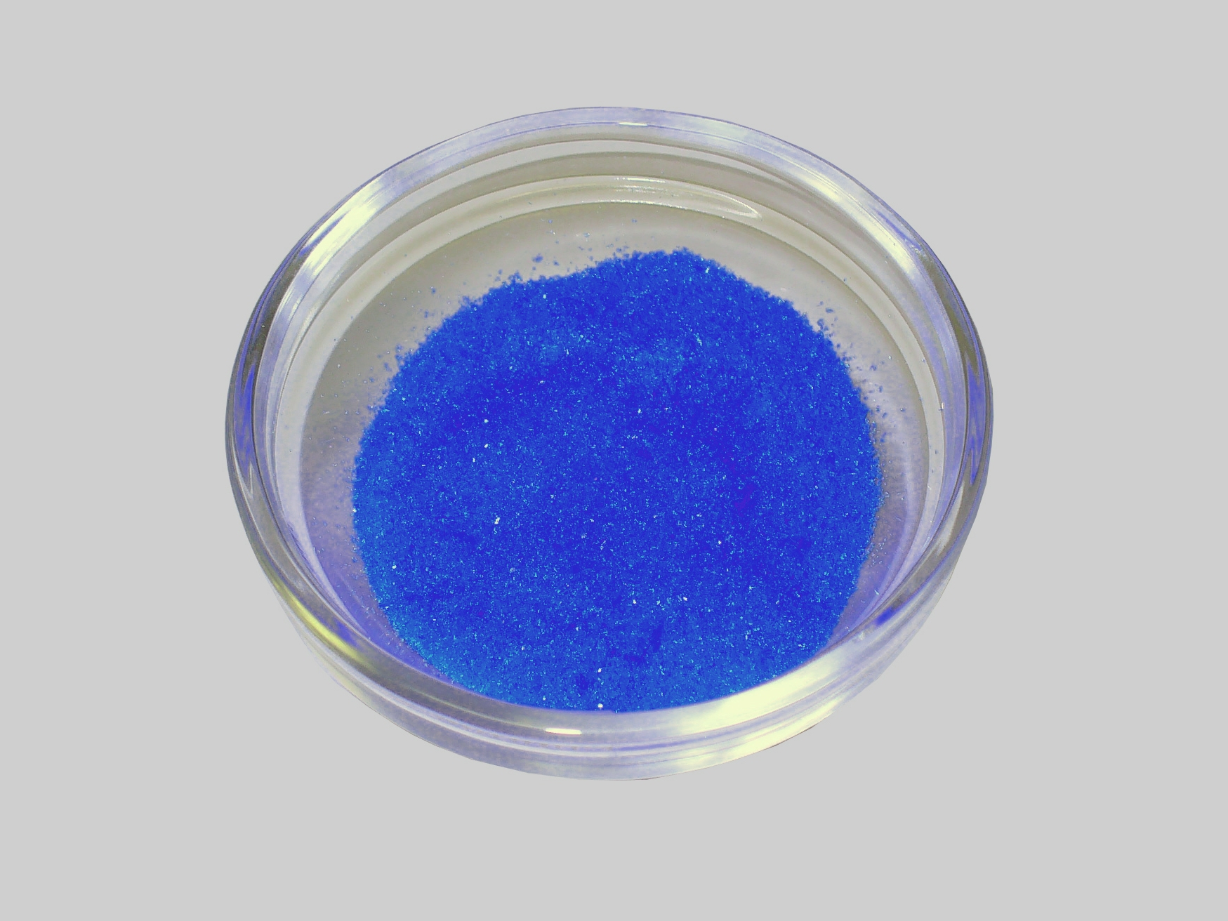 Copper(II) sulfate, (CuSO4·5H2O)